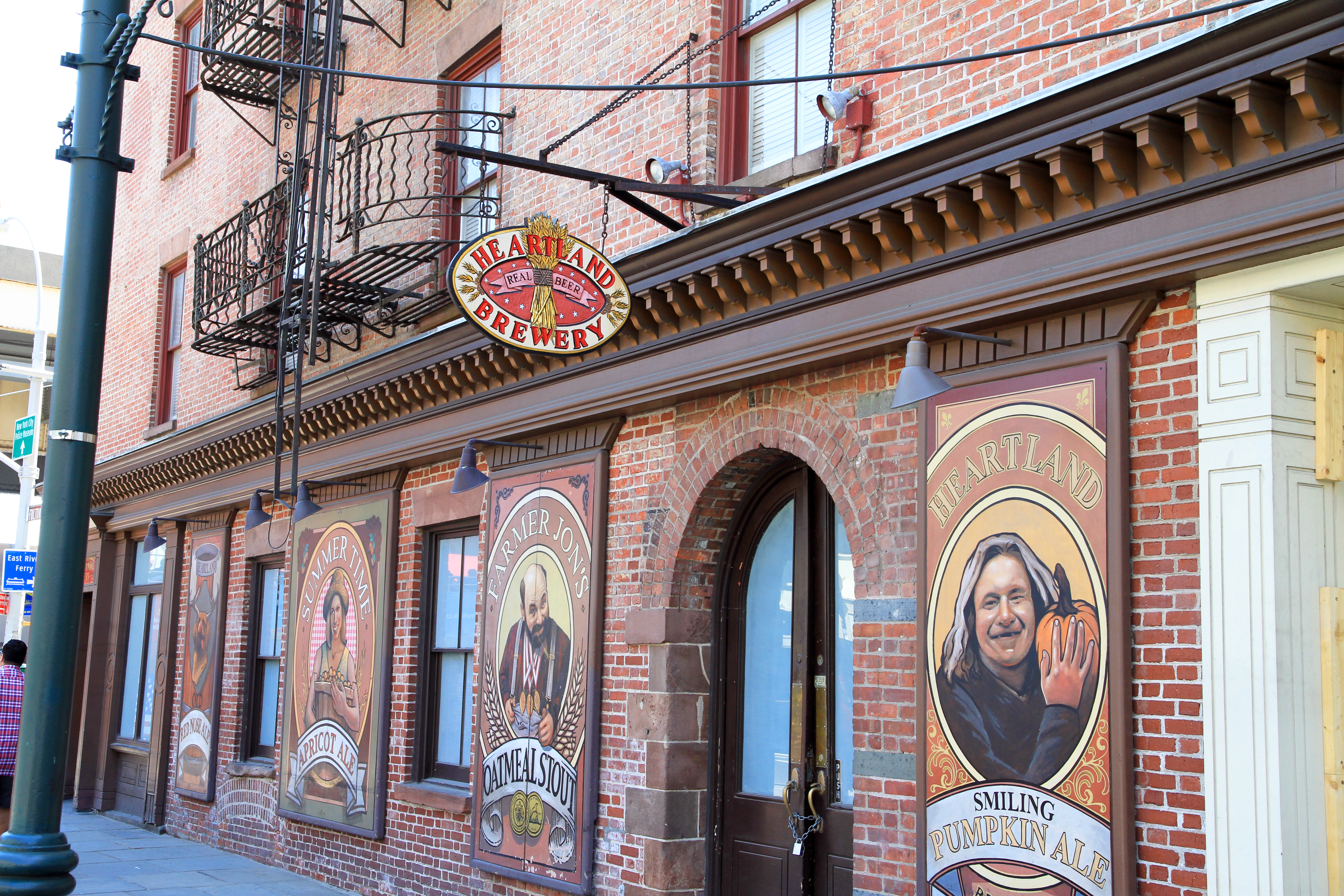 South Street Seaport